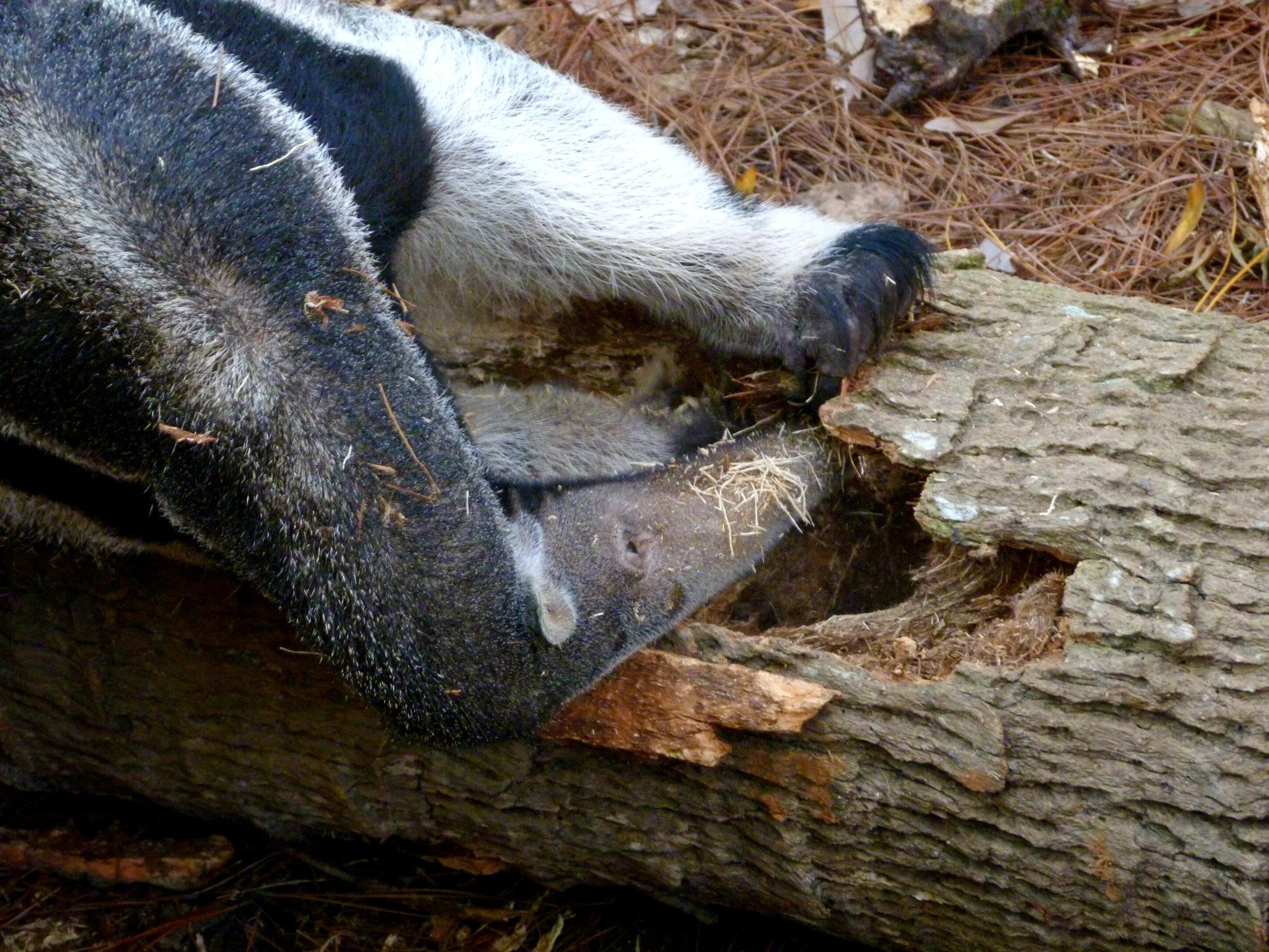 Giant Anteaters / Brevard Zoo